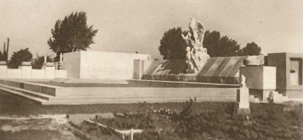 War memorial in Orlová.